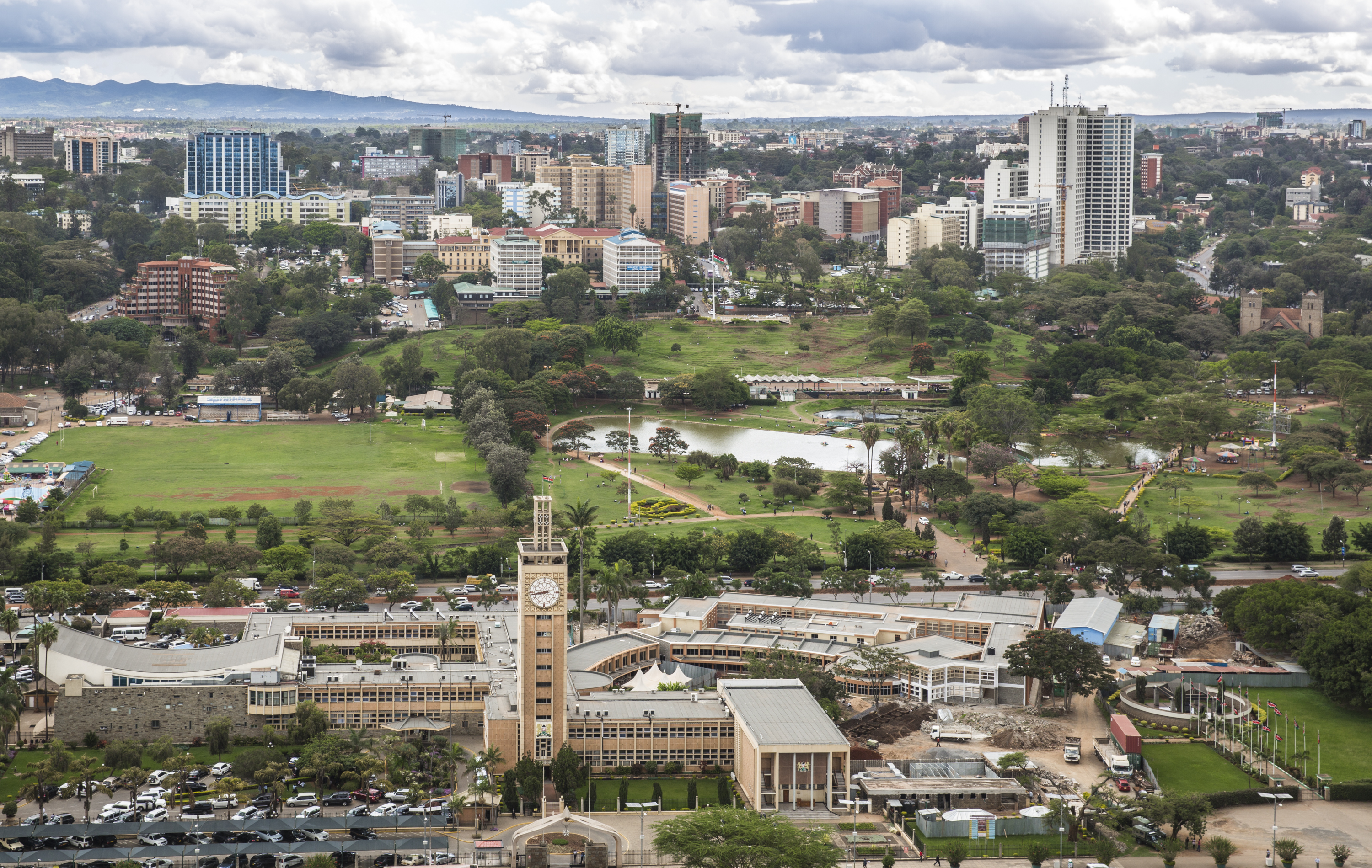 Nairobi, Kenya. Parliament Buildings and Uhuru Park